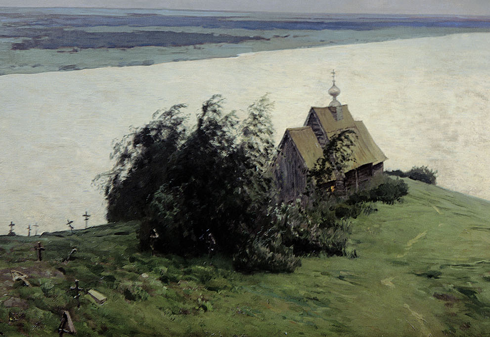 Above the Eternal Tranquility